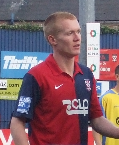 Levi Mackin playing for York City against Havant & Waterlooville at Bootham Crescent, York on 21 February 2009